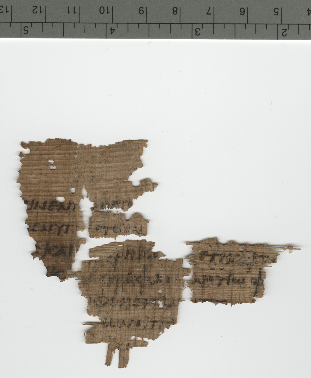 Papyrus 123 verso